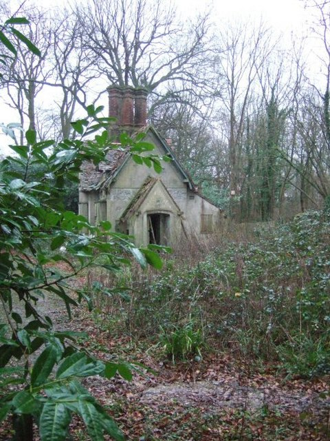 Disused Gatehouse at Baynard's Park Estate Part of the no longer-used entrance (see 311283) to the estate.